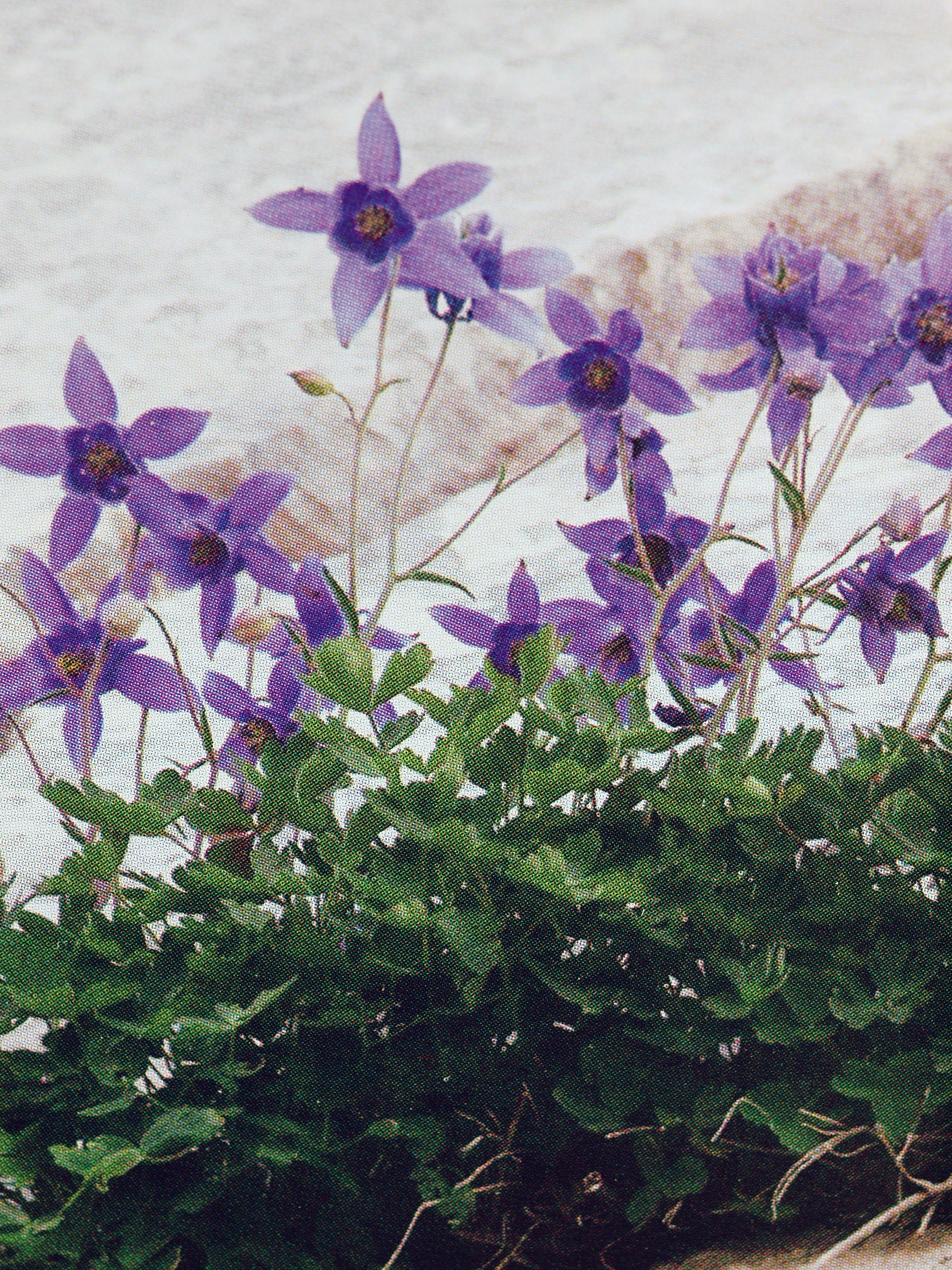 Aquilegia dinarica on mountains of the exterior High Karst in Bosnia and Herzegowina, Original image around 2001, scan of an old paper image